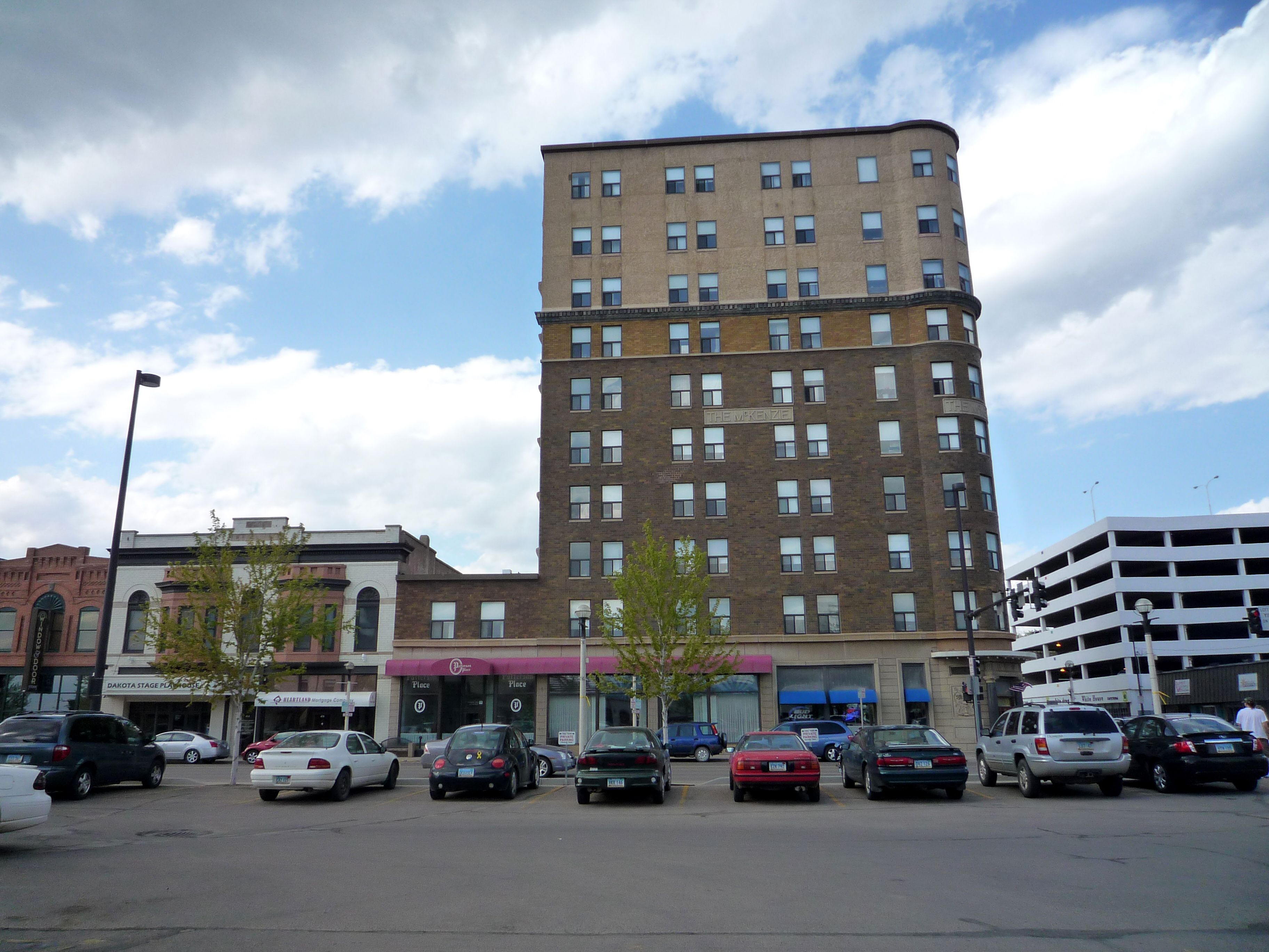 Downtown Bismarck, North Dakota, USA. The McKenzie Building opened on January 1, 1911 as the McKenzie Hotel by Alexander McKenzie. Edward Patterson would purchase the hotel and rename it the Patterson Hotel in 1923, after McKenzie's death. Originally seven stories, the final three were added in the 1930s. For years, the Patterson Hotel was the tallest building in North Dakota. The hotel closed in the 1970s, was condemned in 1980, and then underwent extensive renovation. It now houses a restaurant and the upper floors contain Patterson Place senior housing. Although still known as "The Patterson", most of the Patterson nameplates have been removed, and now bare the original "McKenzie" plates.